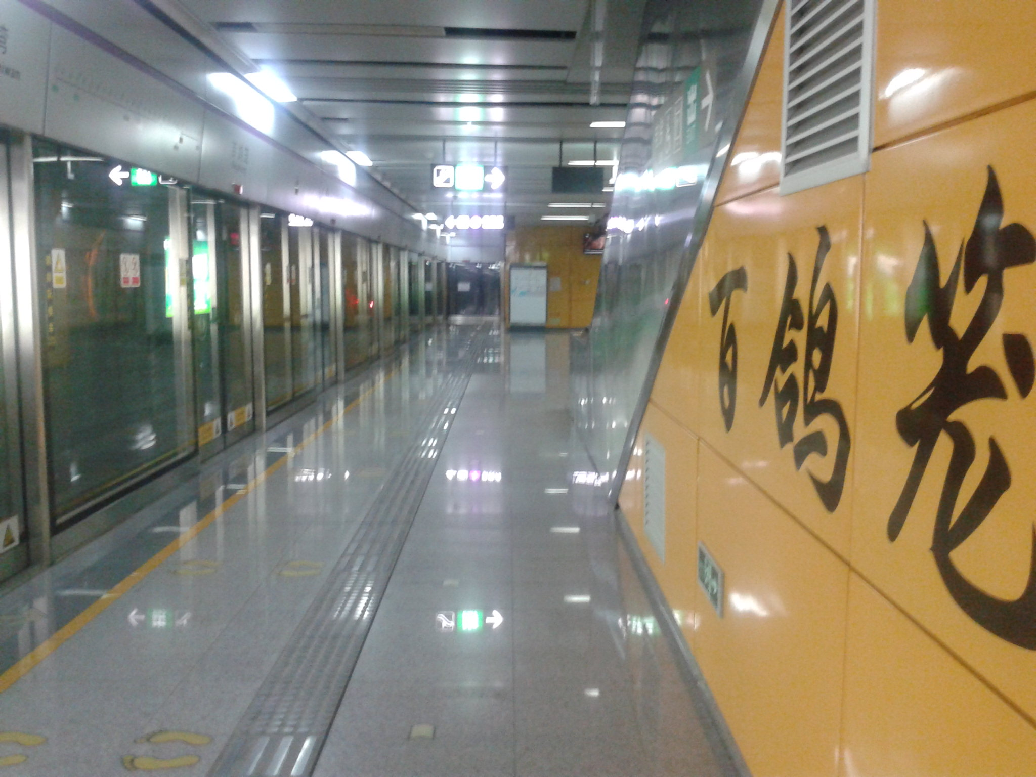 Shenzhen Metro_Baigelong Station